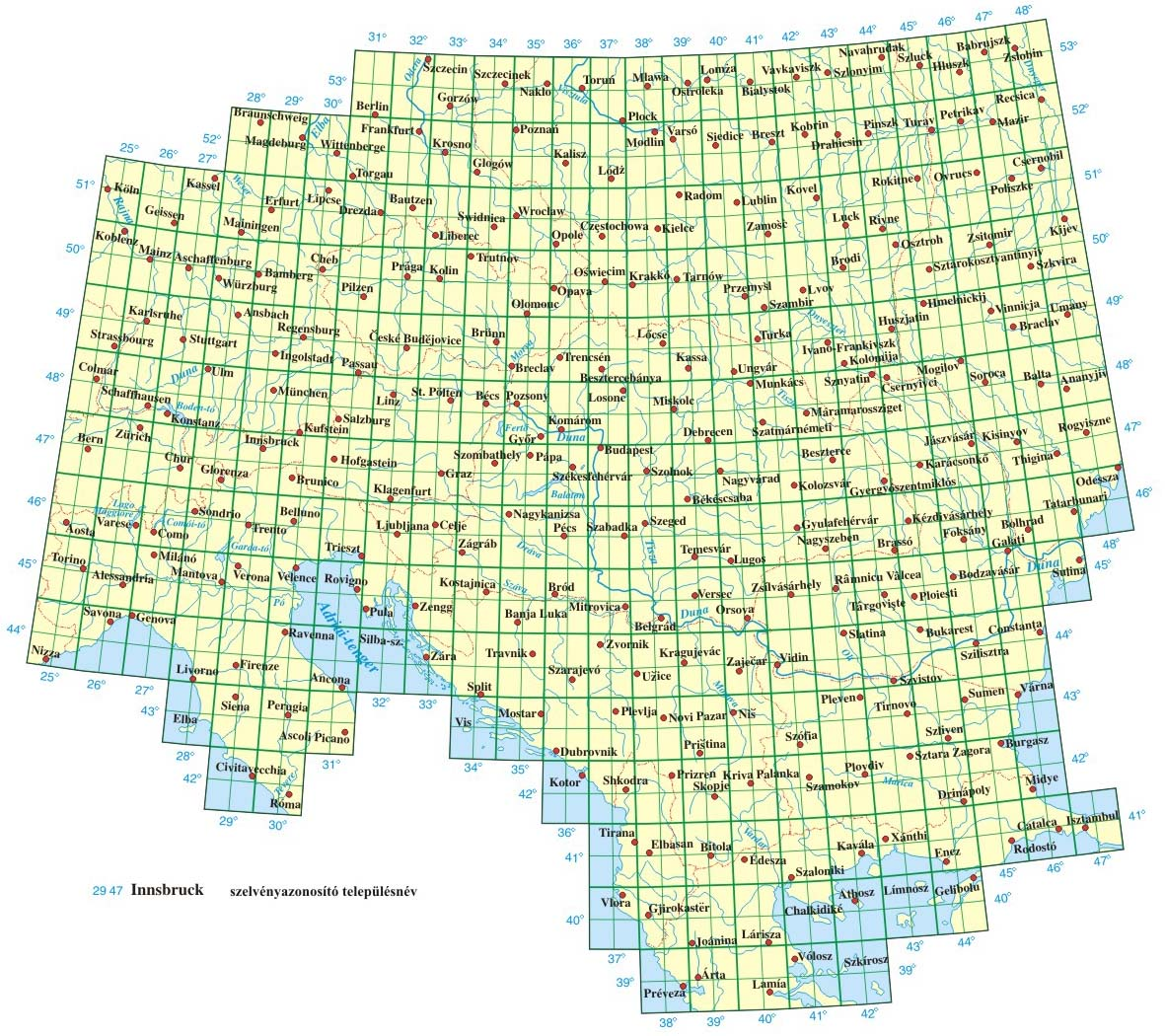 3rd Military Mapping Survey of Austria-Hungary - index sheet. The longitude is counted from Ferro, which is about 18° West of Greenwich, and 20° West of Paris